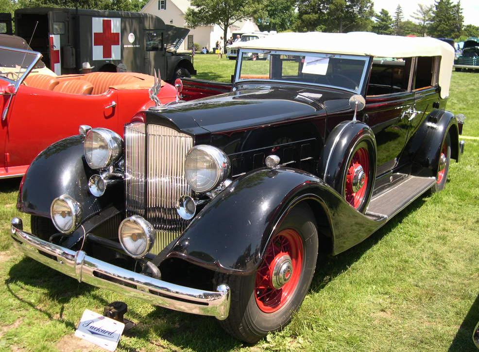 1934 Packard 11th Series Super Eight Model 1104 Convertible Sedan Source: Photographed at the Bay State Antique Automobile Club's July 10, 2005 show at the Endicott Estate in Dedham, MA by User:Sfoskett